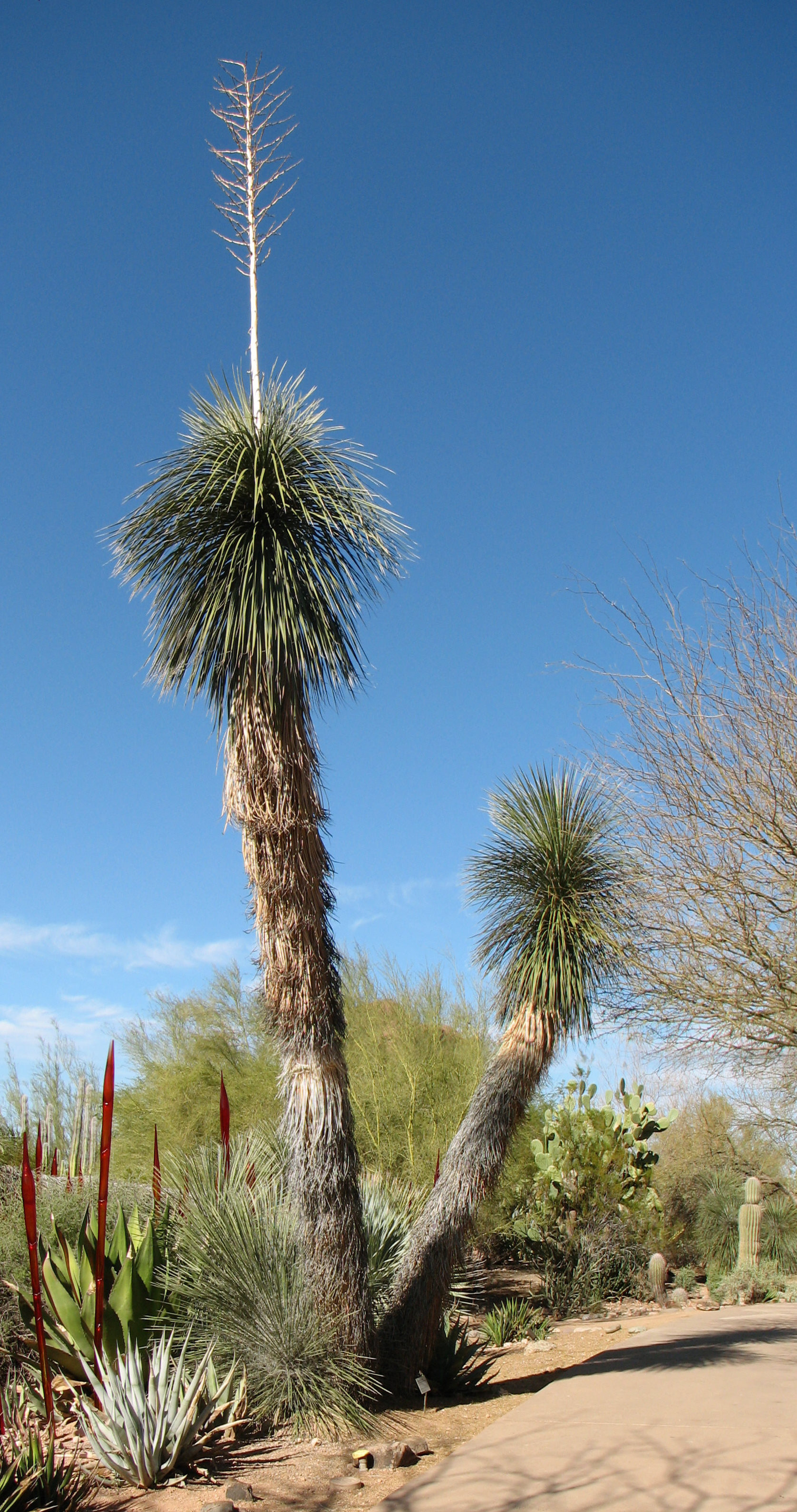 Soaptree yucca (Yucca elata), Desert Botanical Garden, Phoenix, Arizona, USA